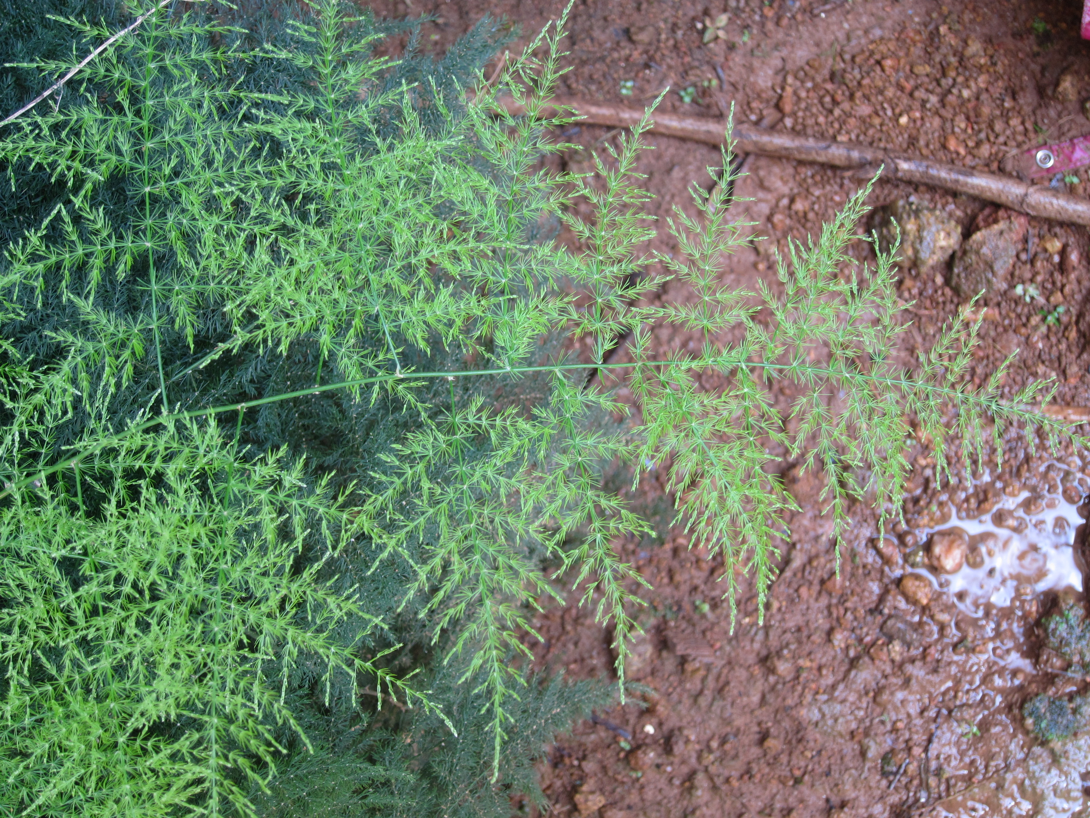 Evergreen - എവർഗ്രീൻ Asparagus Setaceus